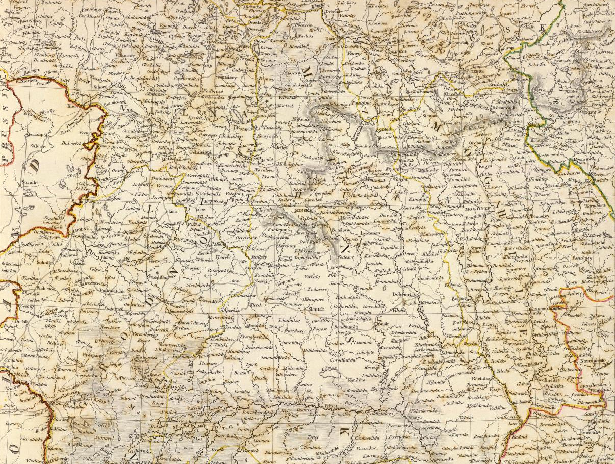 Map showing Grodno, Vilna, Vitebsk, Minsk, and Moghilev gubernias over the former Lithunian territory